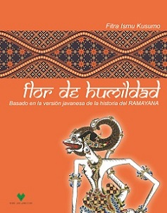 cover del libro flor de humildad del fitra ismu kusumo, una version del autor de la historia de Ramayana